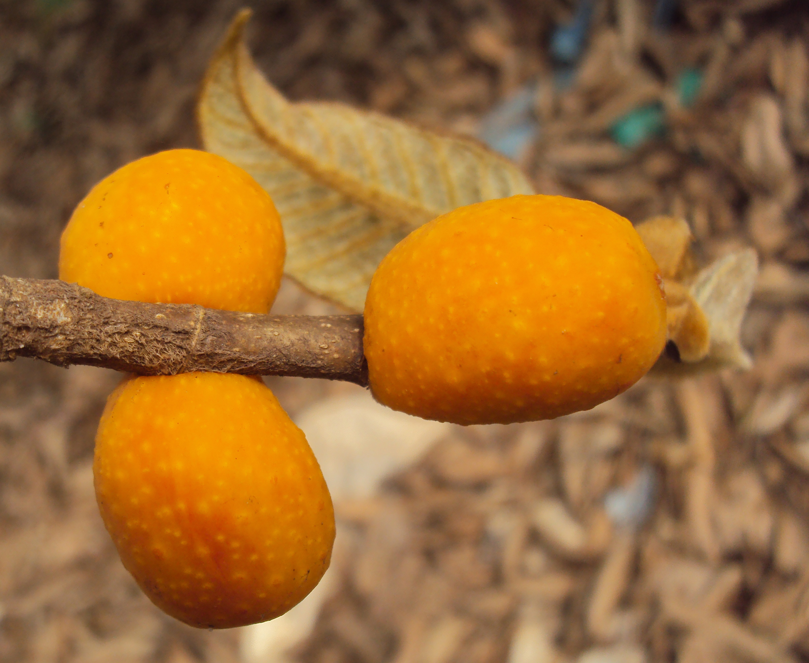 Ficus drupacea